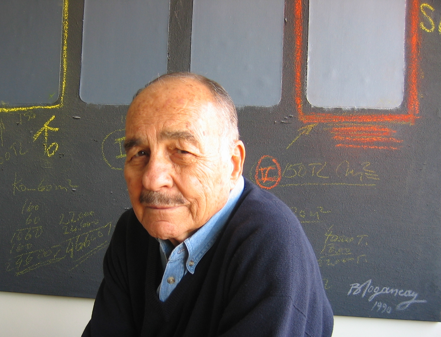 Burhan Dogancay at the Dogancay Museum